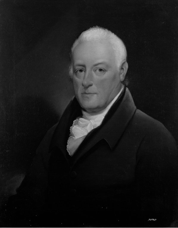 Author/Artist Ames, Ezra, 1768-1836. Title John Lansing, Jr. Publisher/Date 1829. Description Graphic reproduction(s) with documentation of a painting. Dimensions/Medium 30 x 24 in. oil on canvas.